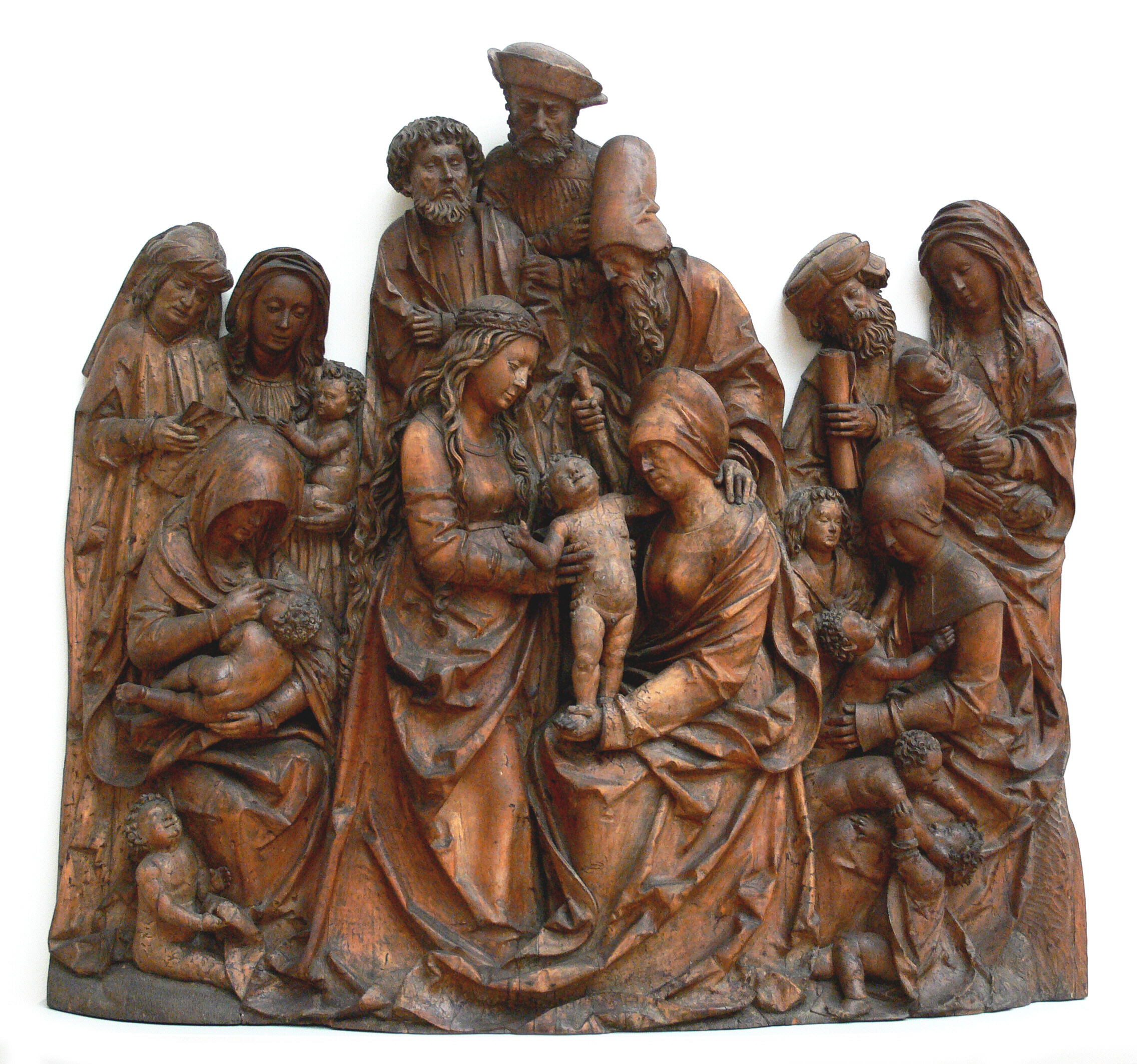 Hans Thomann: Holy Kinship, c. 1515, limewood. Skulpturensammlung (inv. no. 5585 , acquired in 1909), Bode-Museum Berlin.